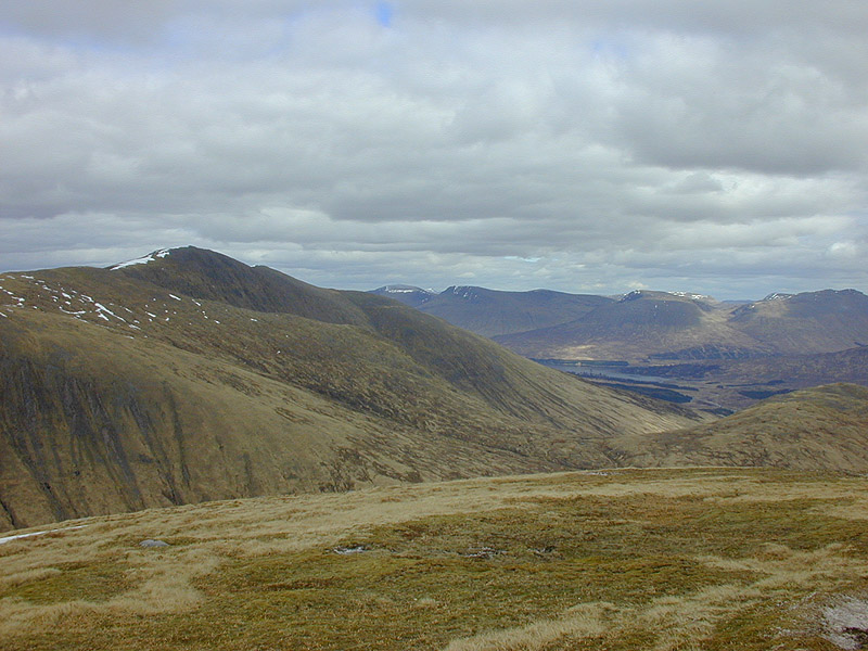 View east from Meall nan Eun Looking towards Stob Ghabhar on the left, and Loch Tulla in the distance.